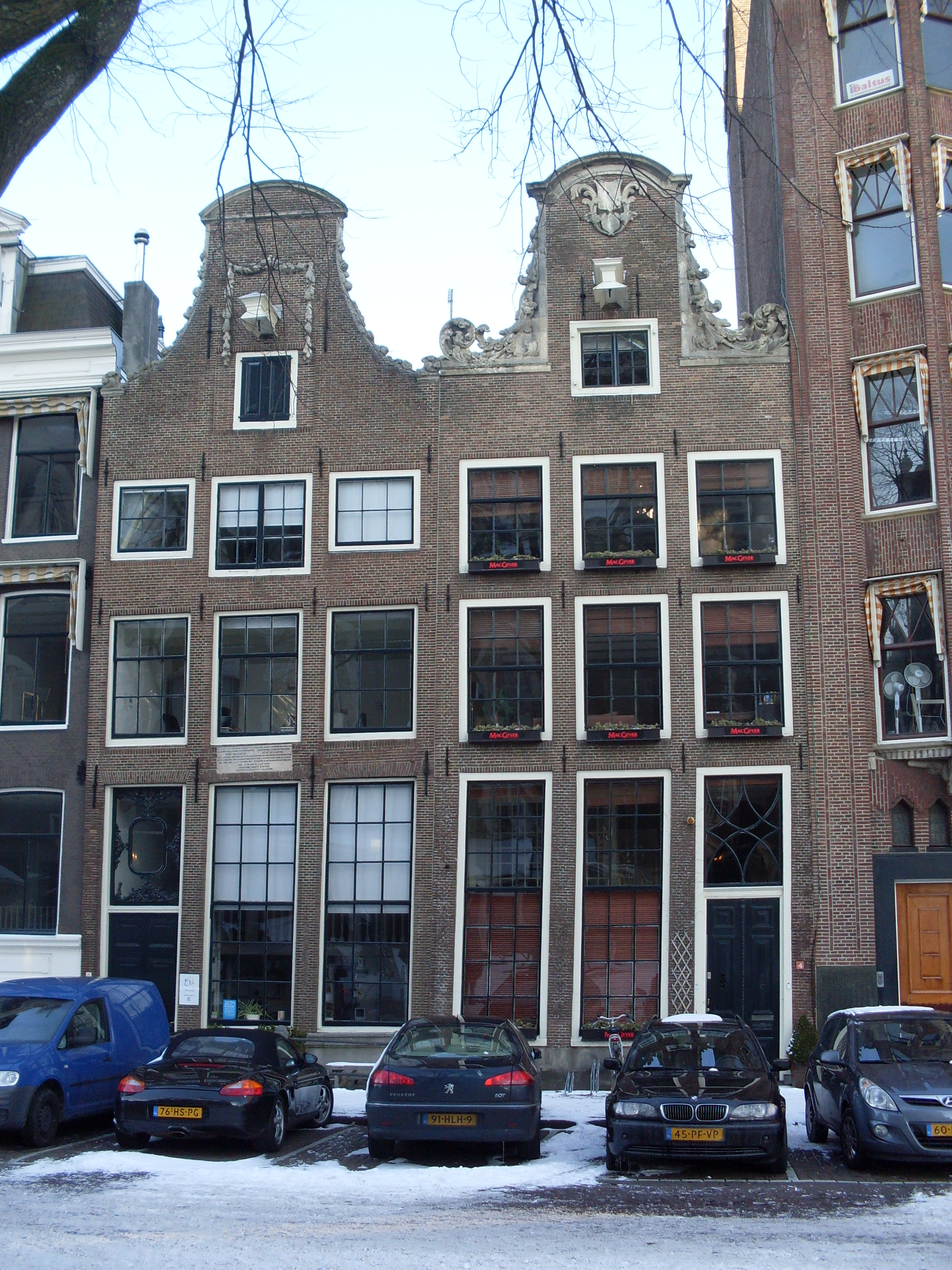 Descarteshuis (links)